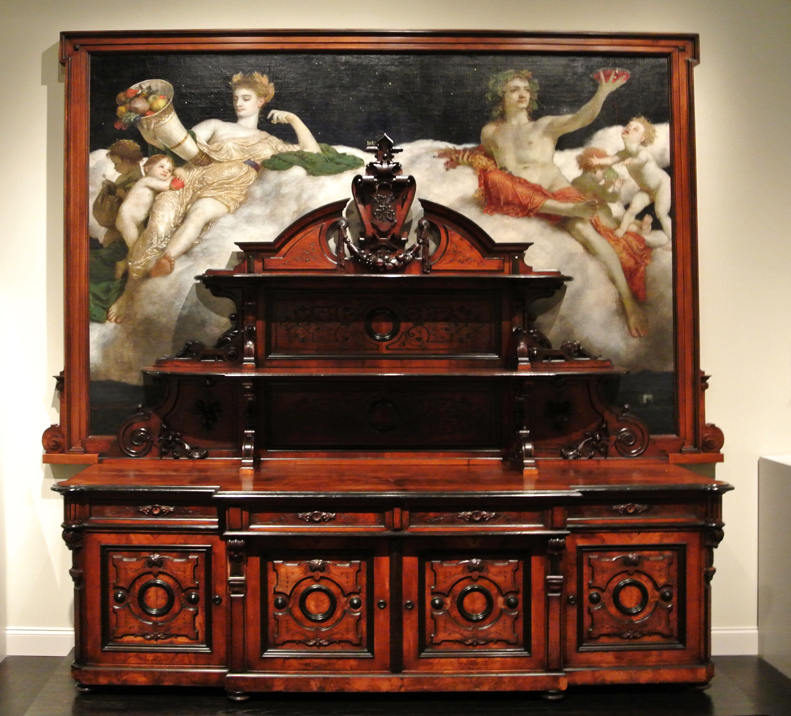 Renaissance revival style sideboard designed by Pössenbacher with painting of Ceres and Bacchus by Böcklin.